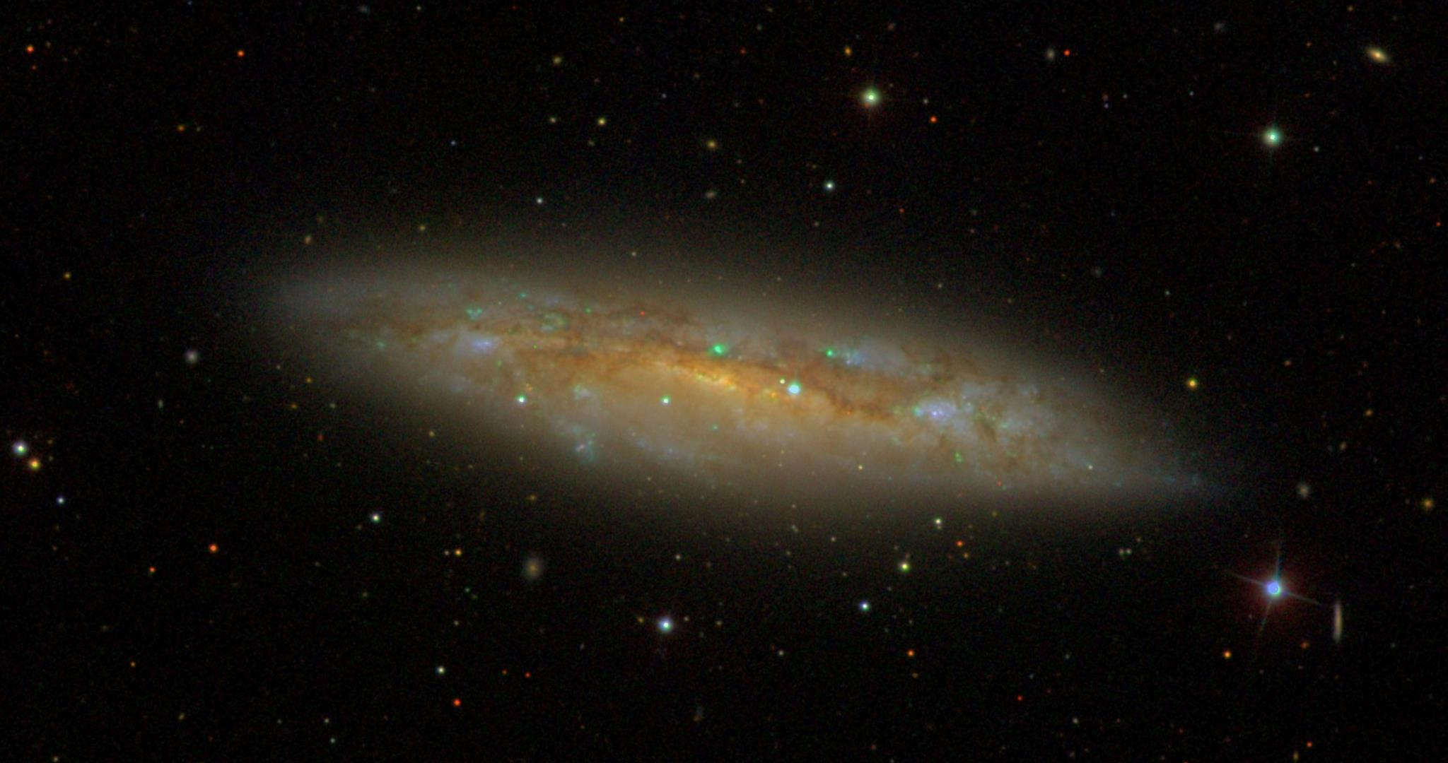 Angle of view: 12' x 6,3' (0.3515625" per pixel), north is up.